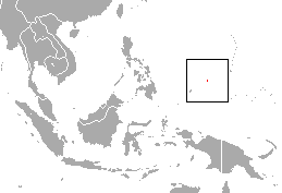 Yap Flying Fox (Pteropus yapensis) range